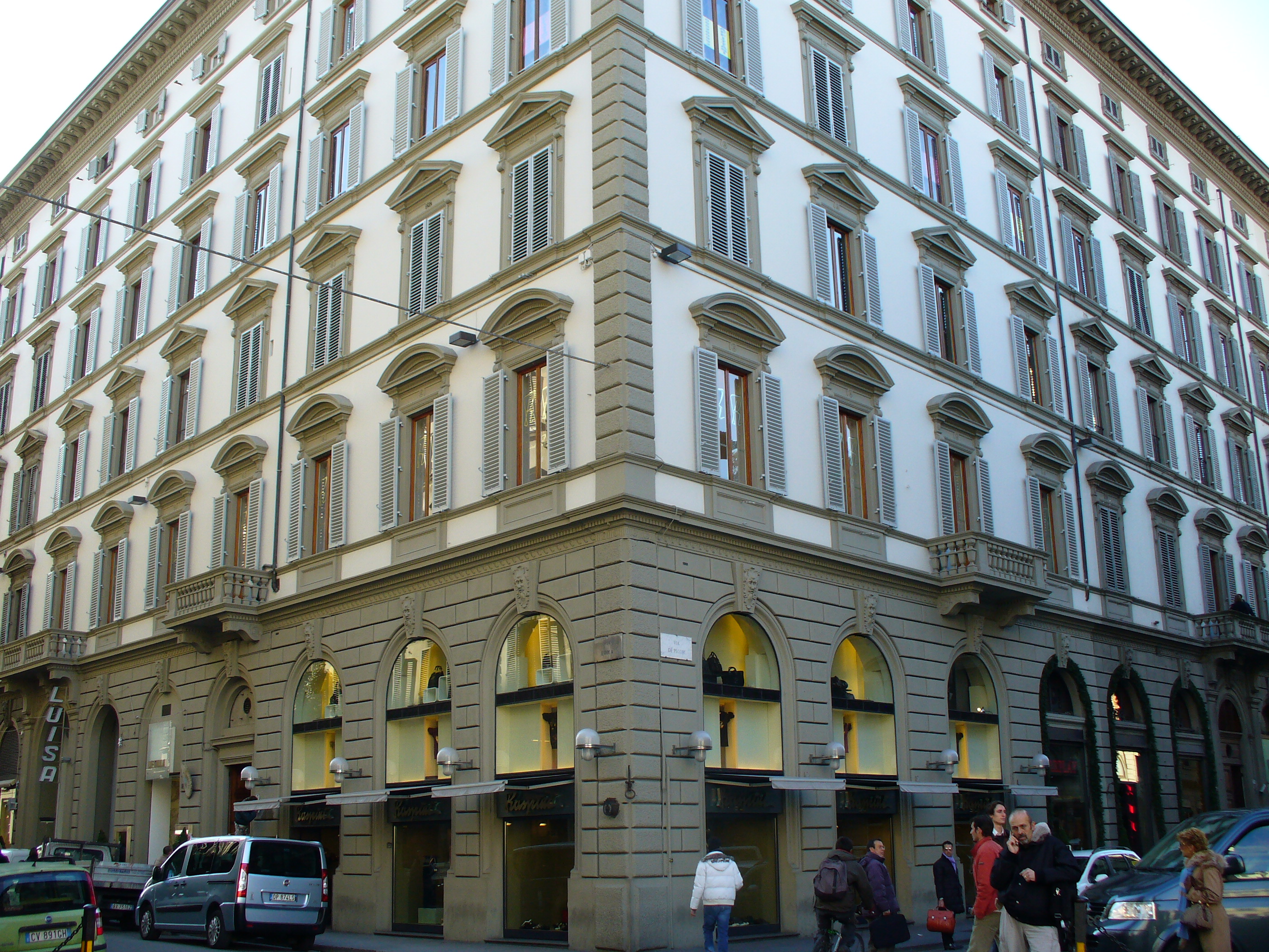 Piazza San Giovanni (Florence)